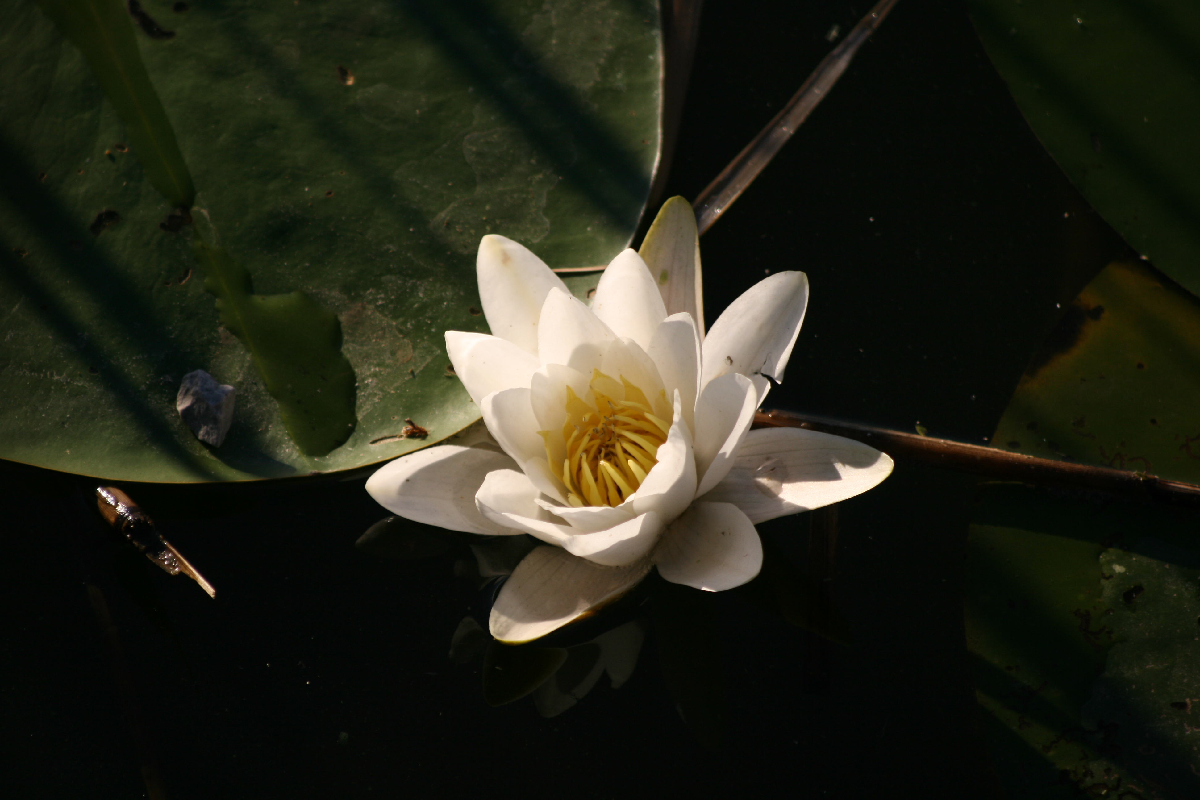 Nymphaea alba in the Natural reserve of "Torbiere del Sebino" - Iseo lake, Italy